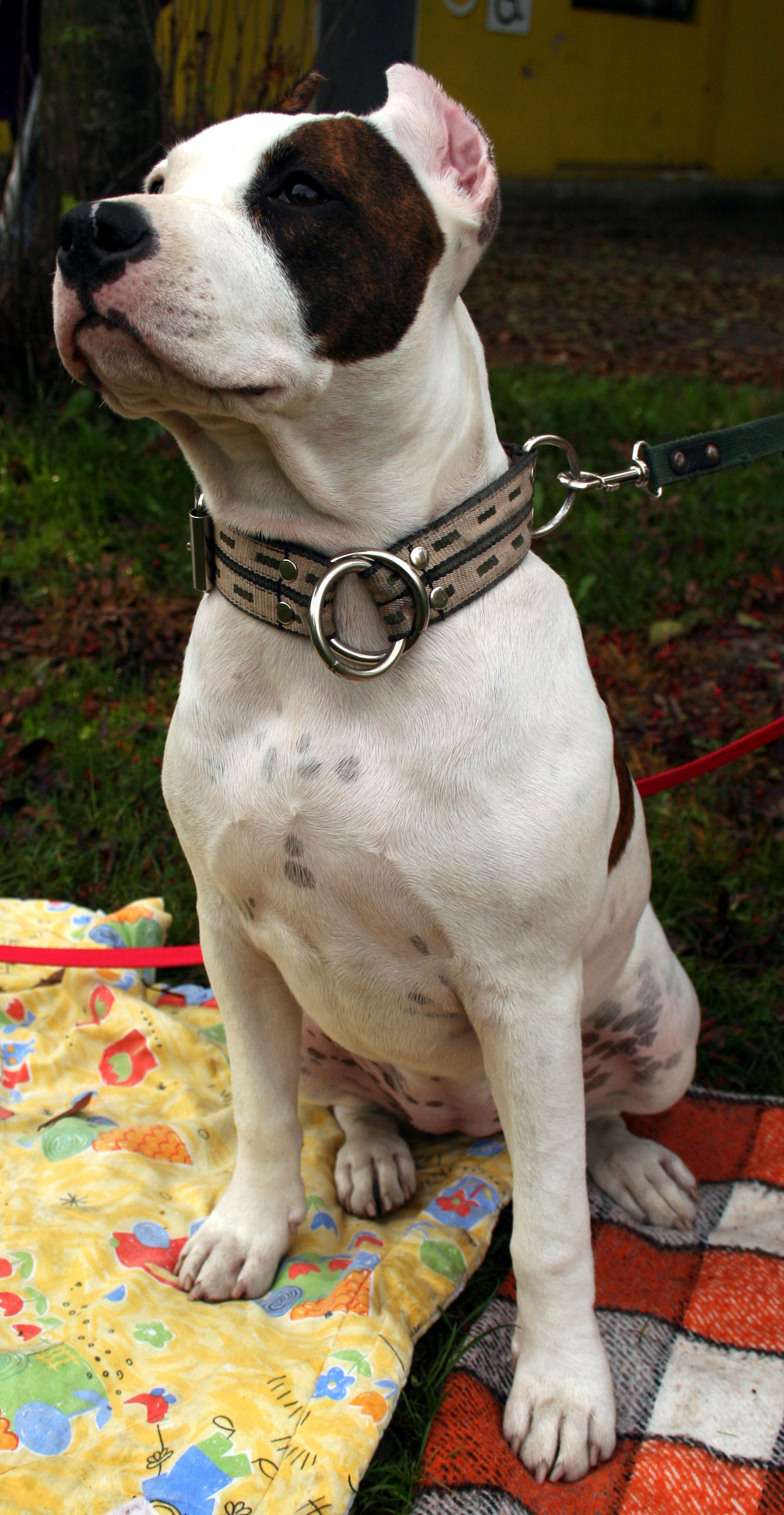 American Staffordshire Terrier suka ADEAJDA BIACCA Canossa (FCI)